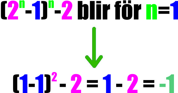 1 is the first Carol number.